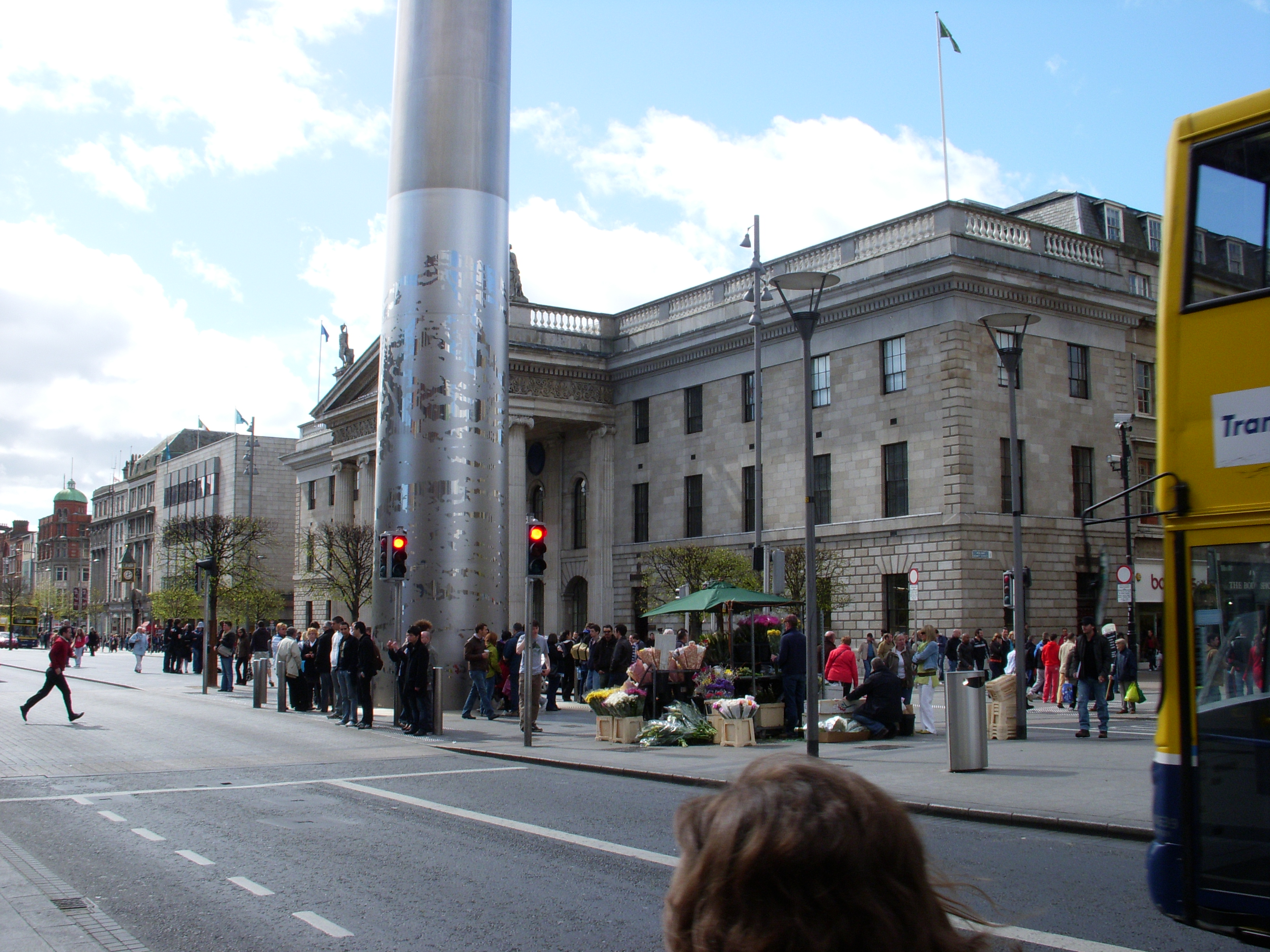 The Spire of Dublin, base artwork